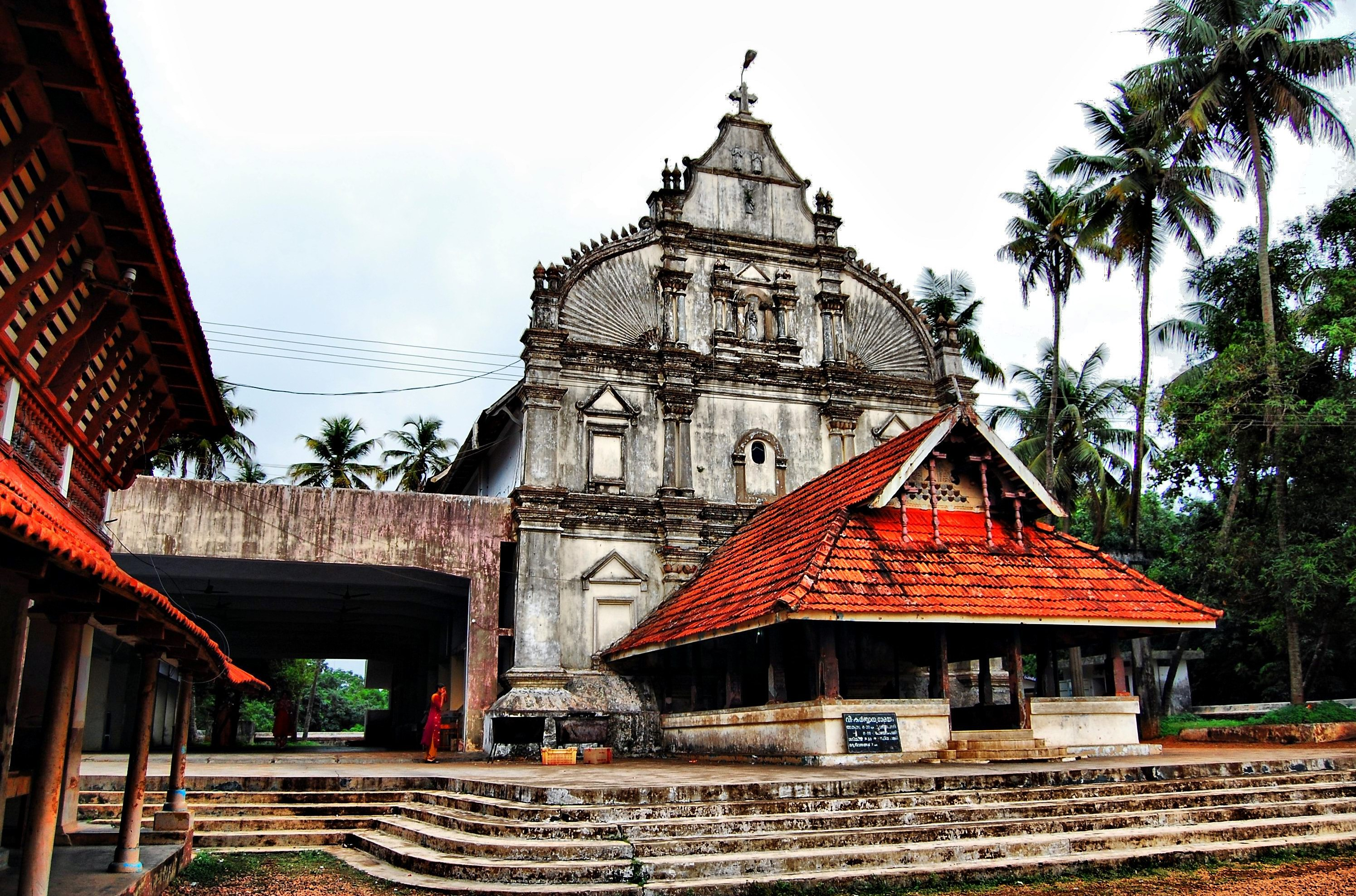 കത്തനാരുടെ സ്വന്തം പള്ളി